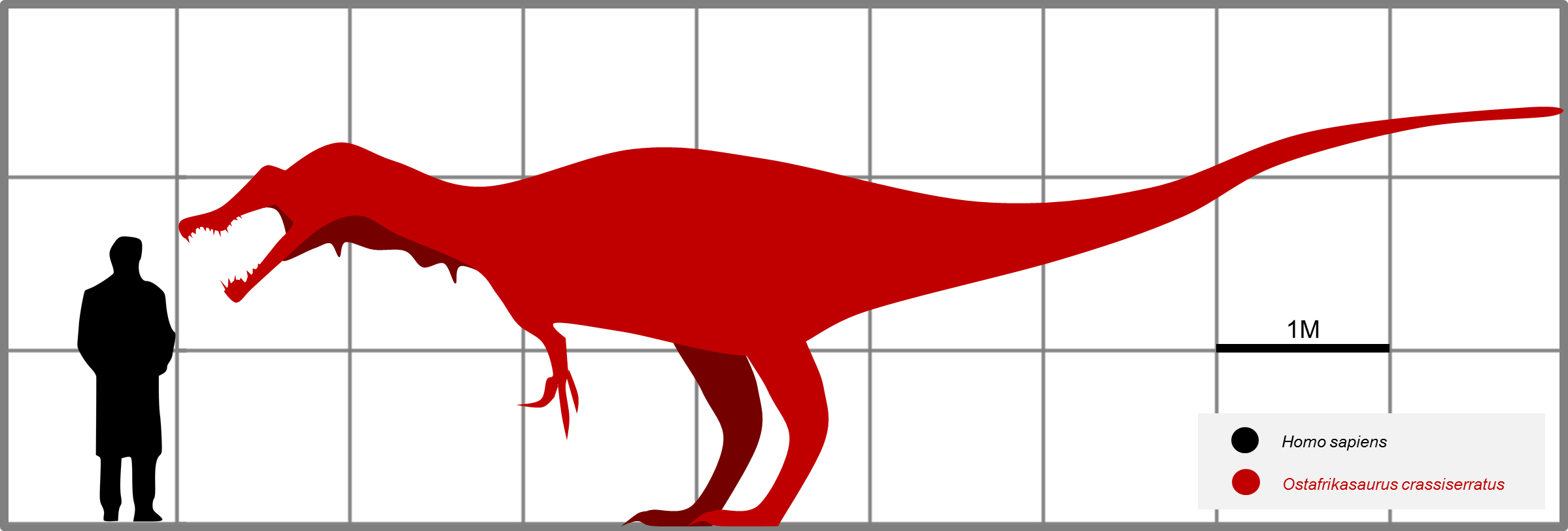 Size comparison of Ostafrikasaurus with a human being, based on Baryonyx.